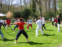 World Tai Chi & Qigong Day archive - Augsberg, Germany event